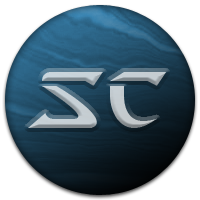 Free use logo for StarCraft-related items